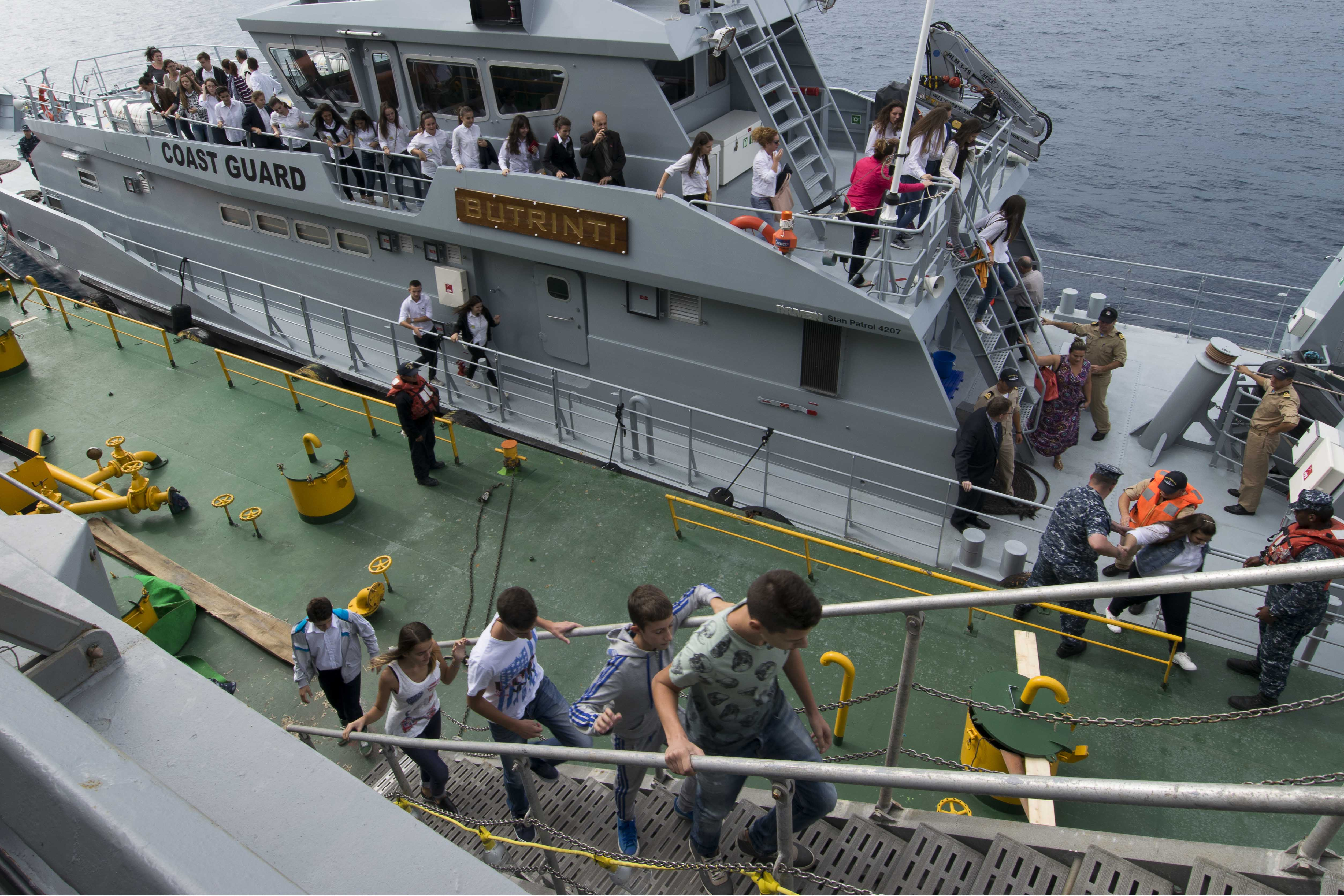 150926-N-AX546-120 MEDITERRANEAN SEA (Sept. 26, 2015) Children from Shkolla Internacional Jo Publike in Albania tour the guided-missile destroyer USS Porter (DDG 78) during a community service event while anchored off the coast of Albania. Porter is forward-deployed to Rota, Spain and is on routine patrol conducting naval operations in the U.S. 6th Fleet area of operations in support of U.S. national security interests in Europe. (U.S. Navy photo by Mass Communication Specialist 1st Class Sean Spratt/Released)